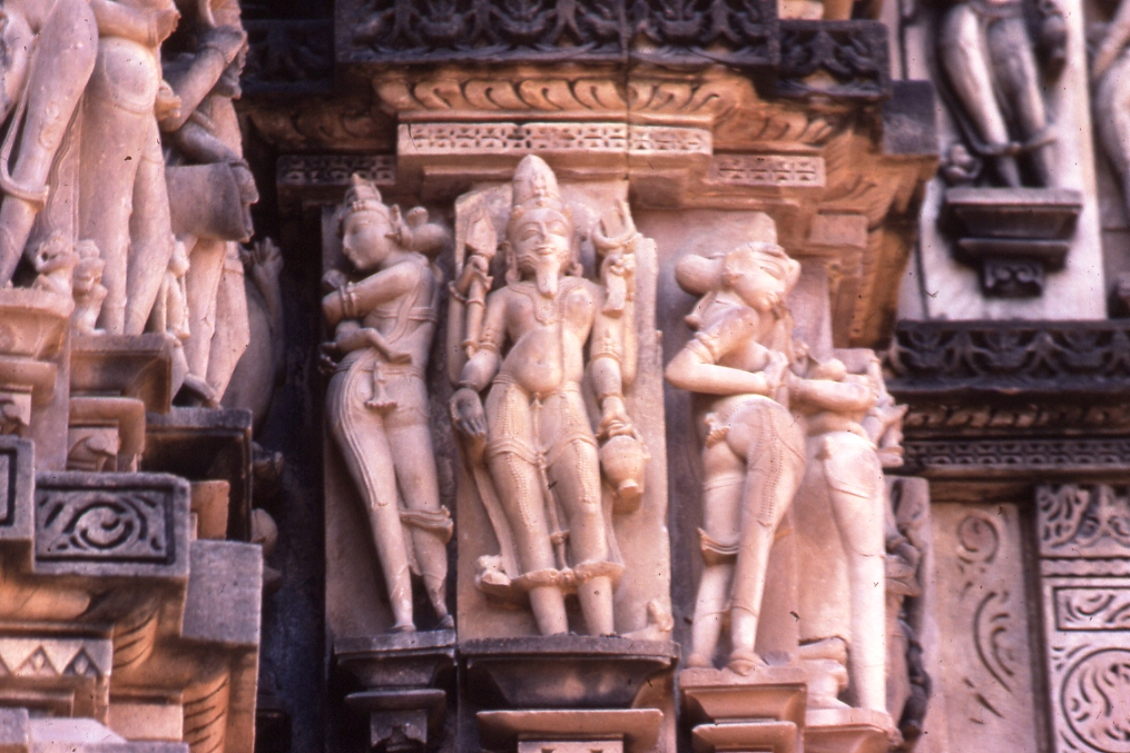 Brahma, Kandariya Mahadeva Temple, Khajuraho, Madhya Pradesh, India.